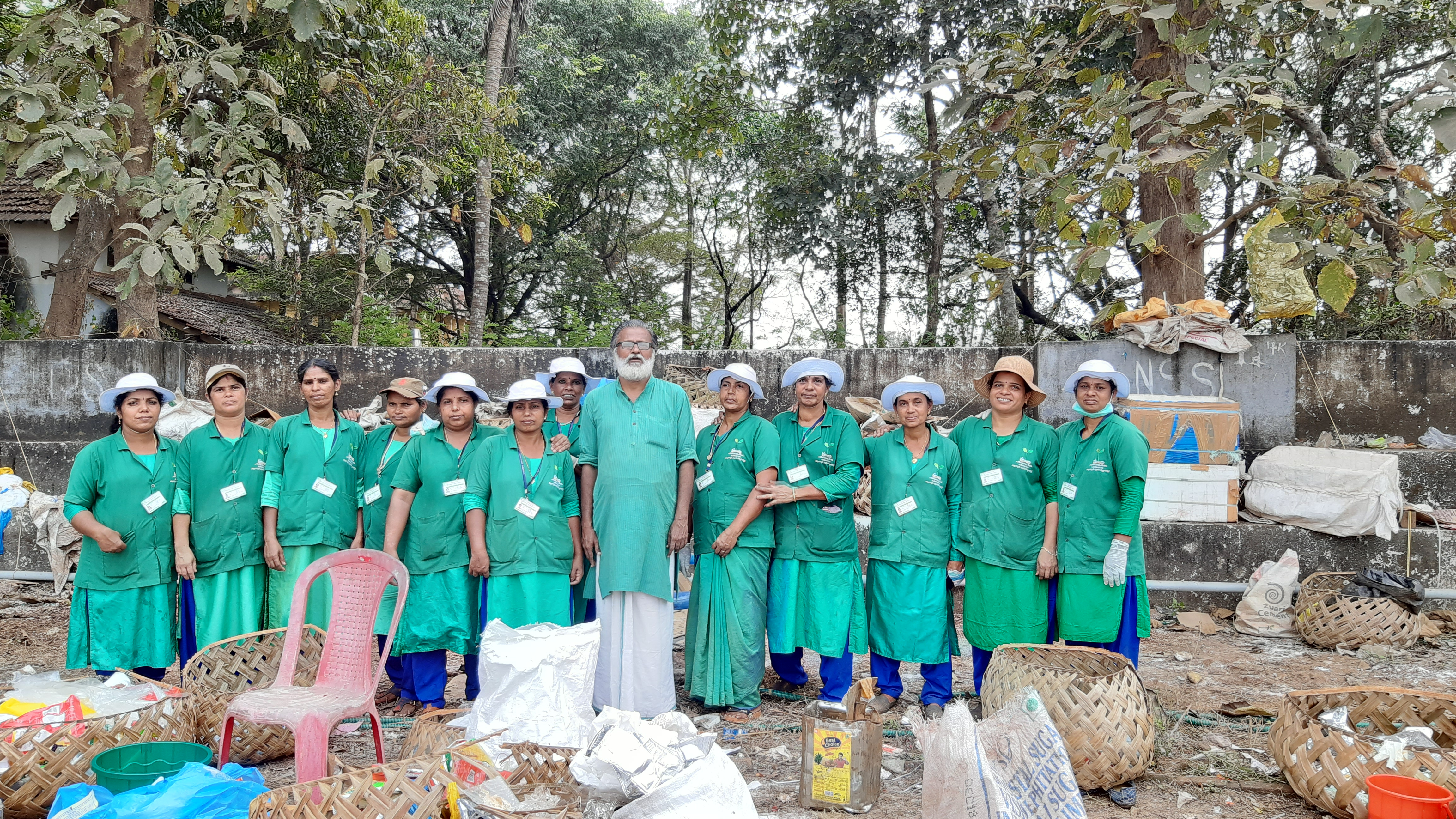 Haritha Karma sena is a group of trained workers of Haritha Kerala Mission, an initiative of Govt of Kerala.